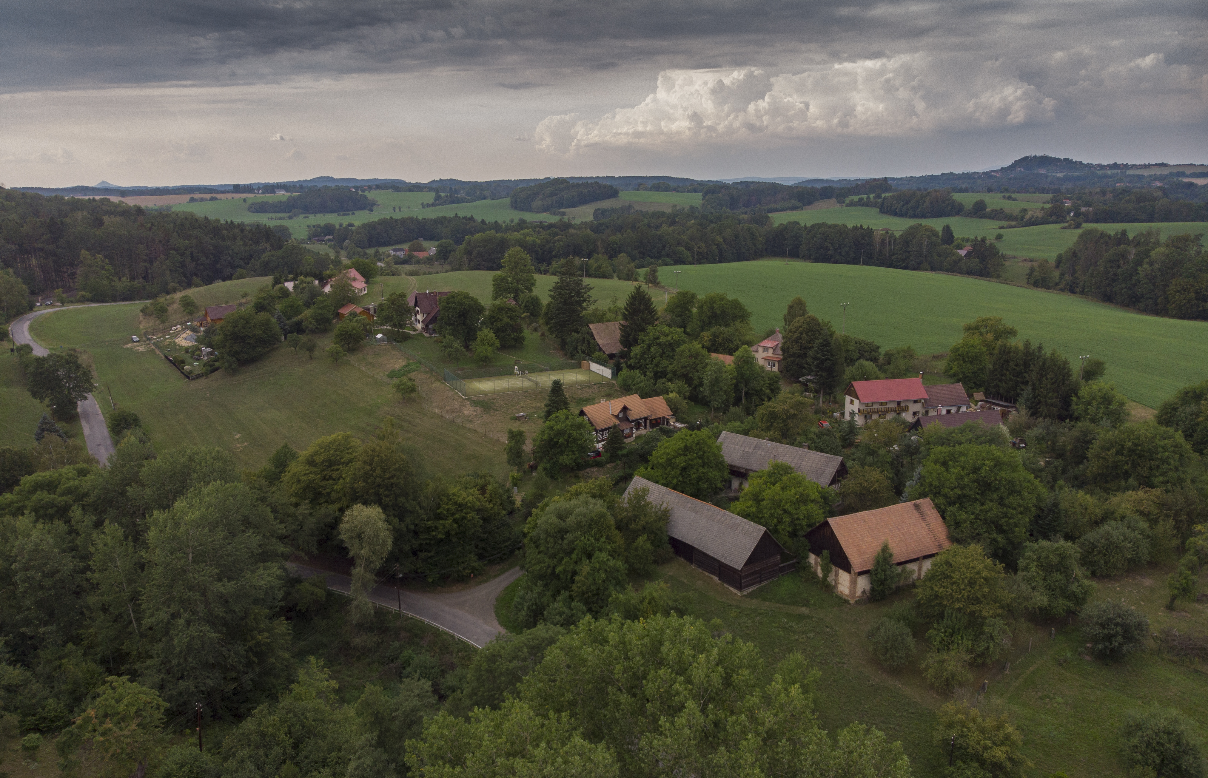 Malechovice (Libosovice) village in Czech Republic - drone shot